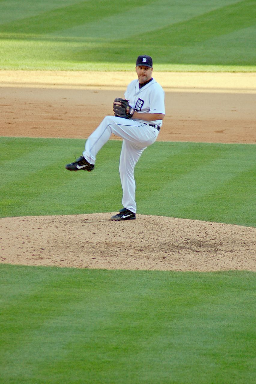 nothing wasted